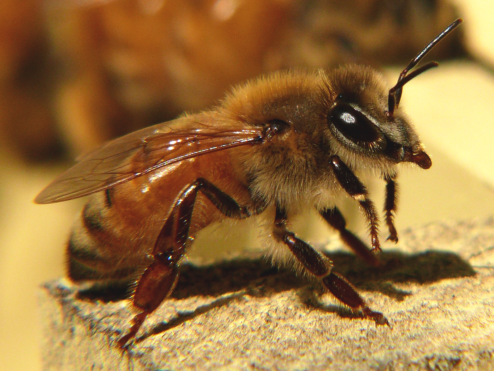 Italian or Ligurian honeybee (Apis mellifera ligustica) worker. Photo taken with a Panasonic Lumix DMC-FZ50 (with a Tiffen +4 Dioptic Lens) in Caldwell County, NC, USA.